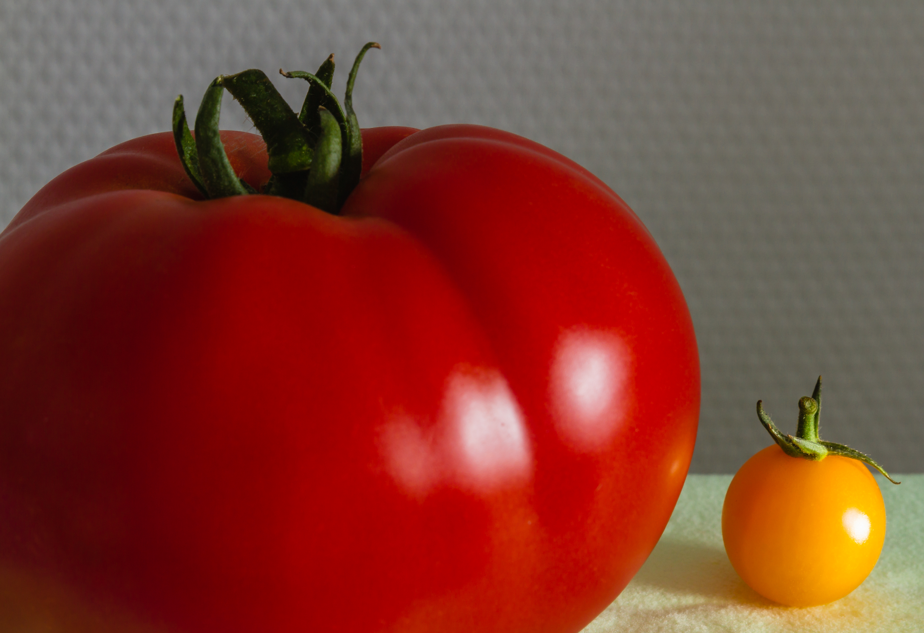 Large and small tomato